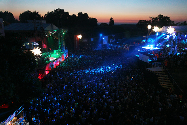 First day on exit festival.. Wonderful sunrise at dance arena !